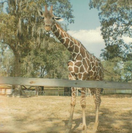 Giraffe at Louisiana Purchase Gardens and Zoo, Monroe, Louisiana, 1971. I took photo myself with Kodak camera.